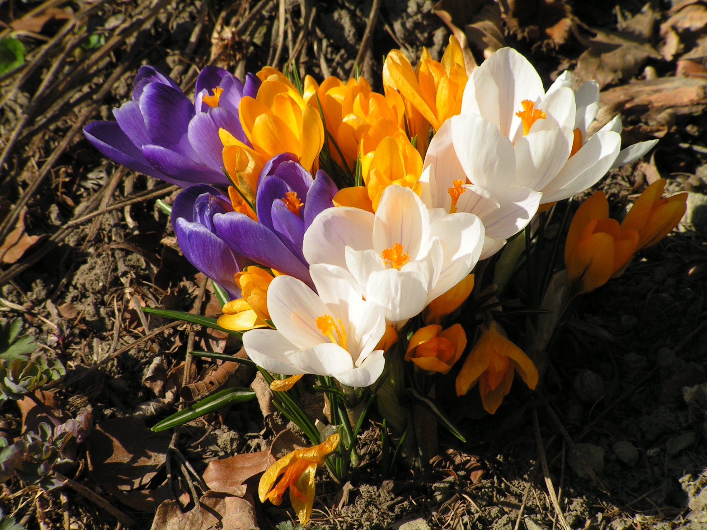 Spring flowers various crocuses